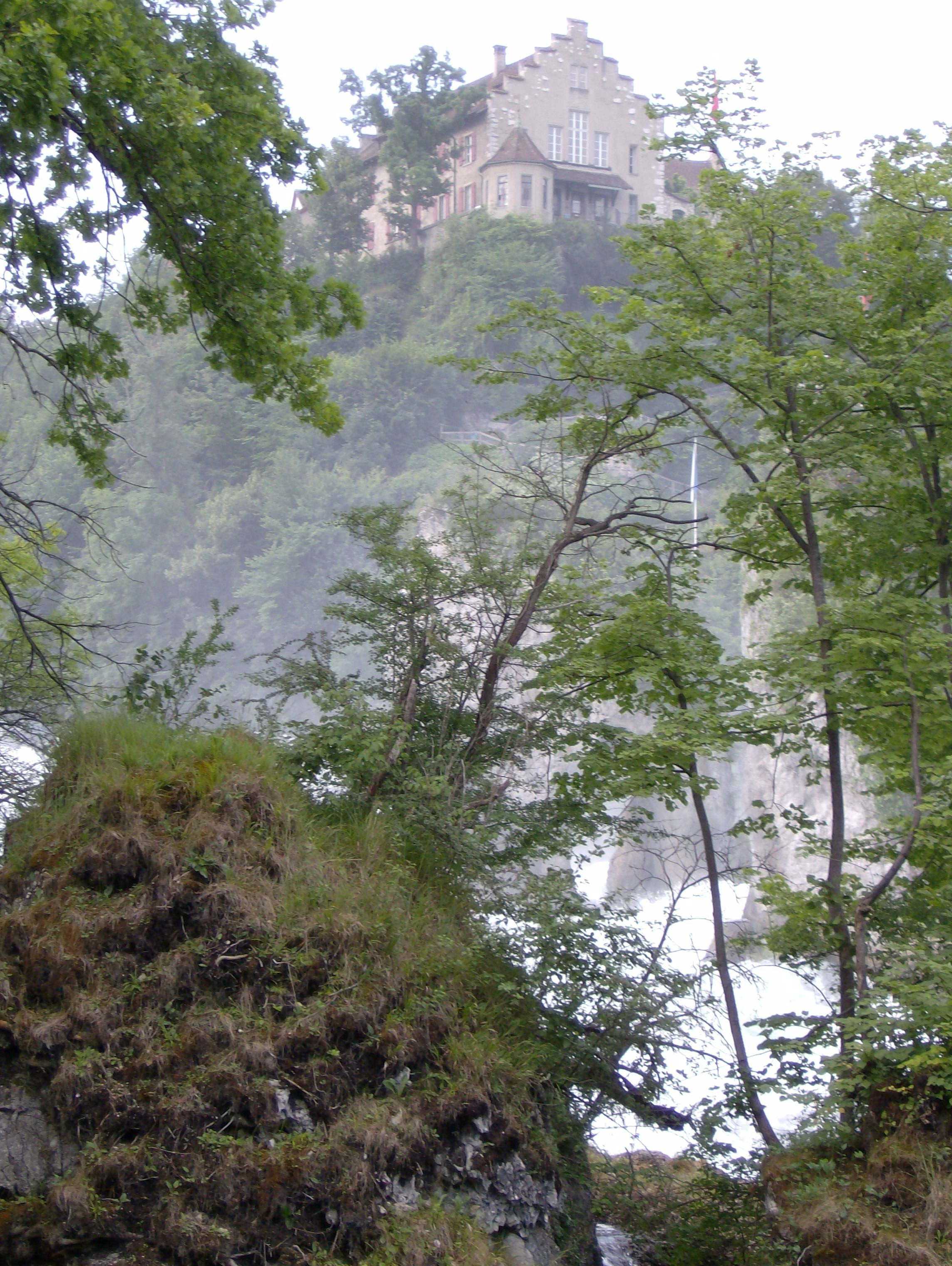 Castle Laufen at the Rhine Falls